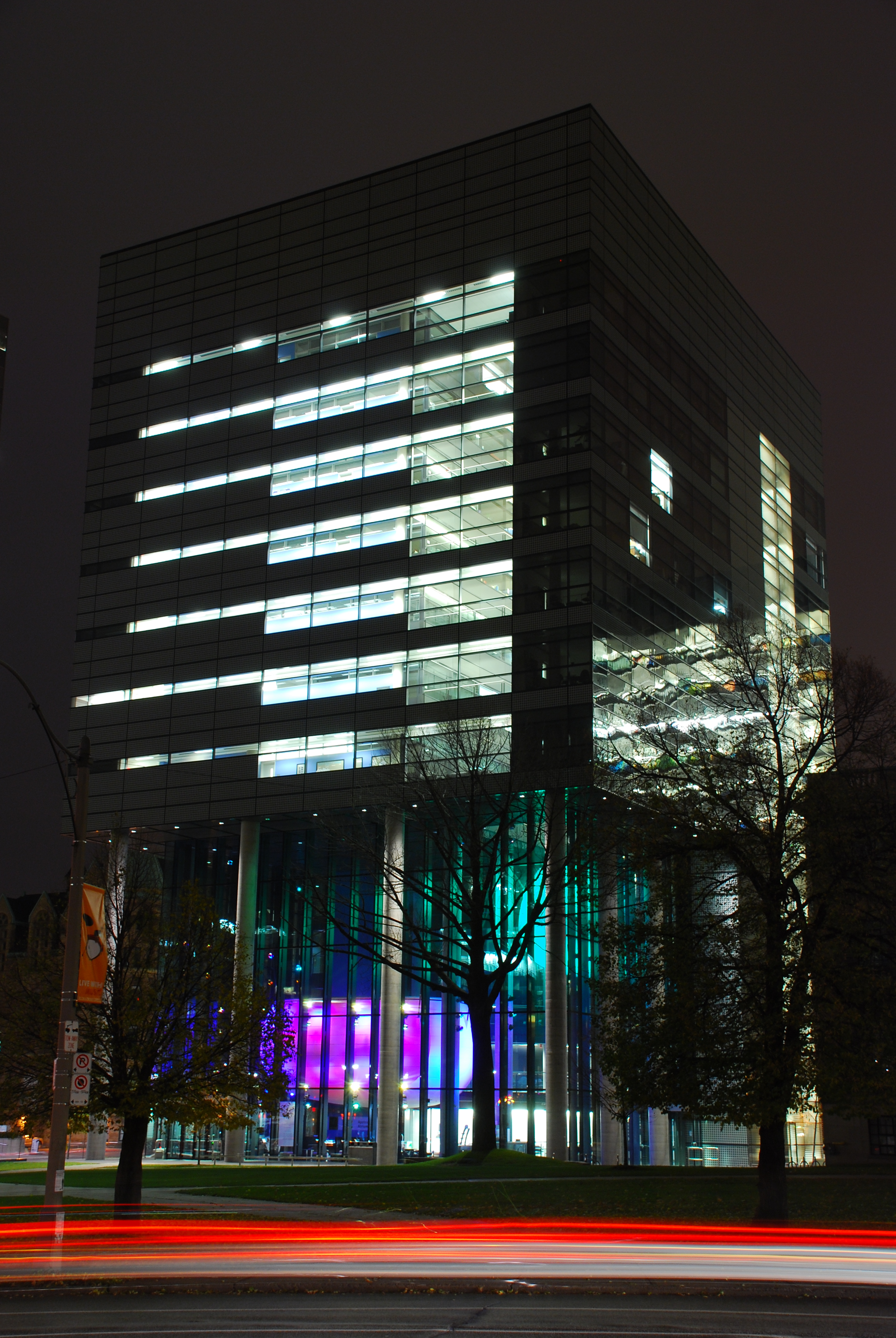 Leslie L. Dan Pharmacy Building of the university of Toronto seen at night.JPG